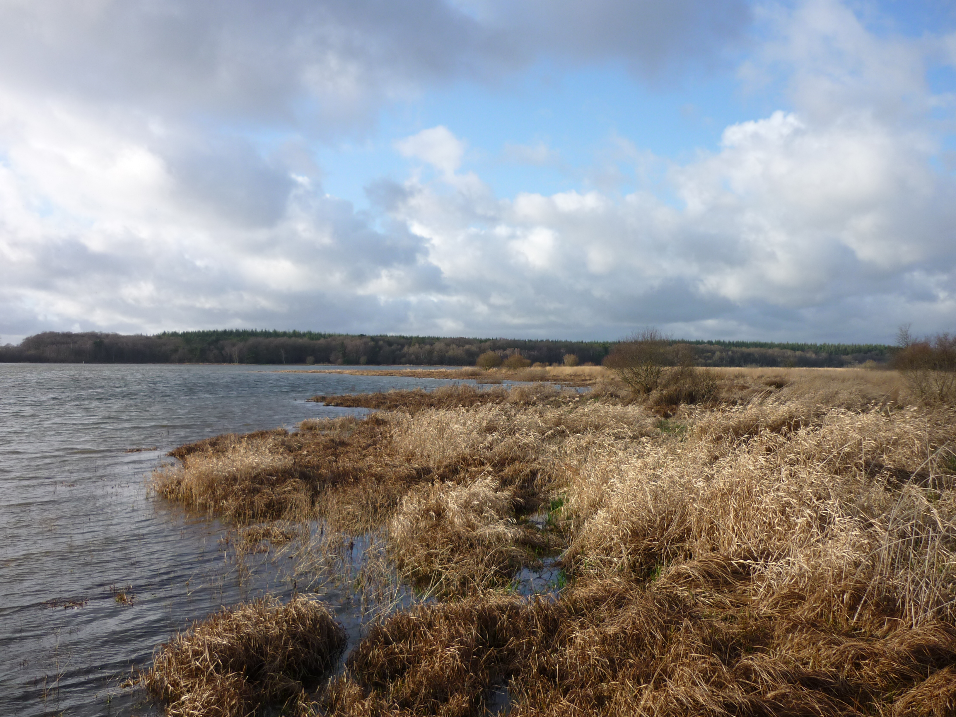 Boulet Lake, located on the town Feins (35440). Britain, near Rennes.